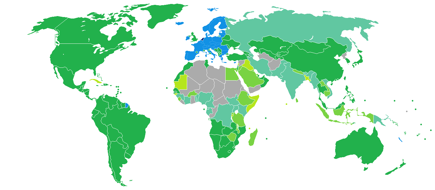 Visa requirements for Dutch citizens Netherlands Freedom of movement Visa not required Visa on arrival eVisa Visa available both on arrival or online Visa required prior to arrival